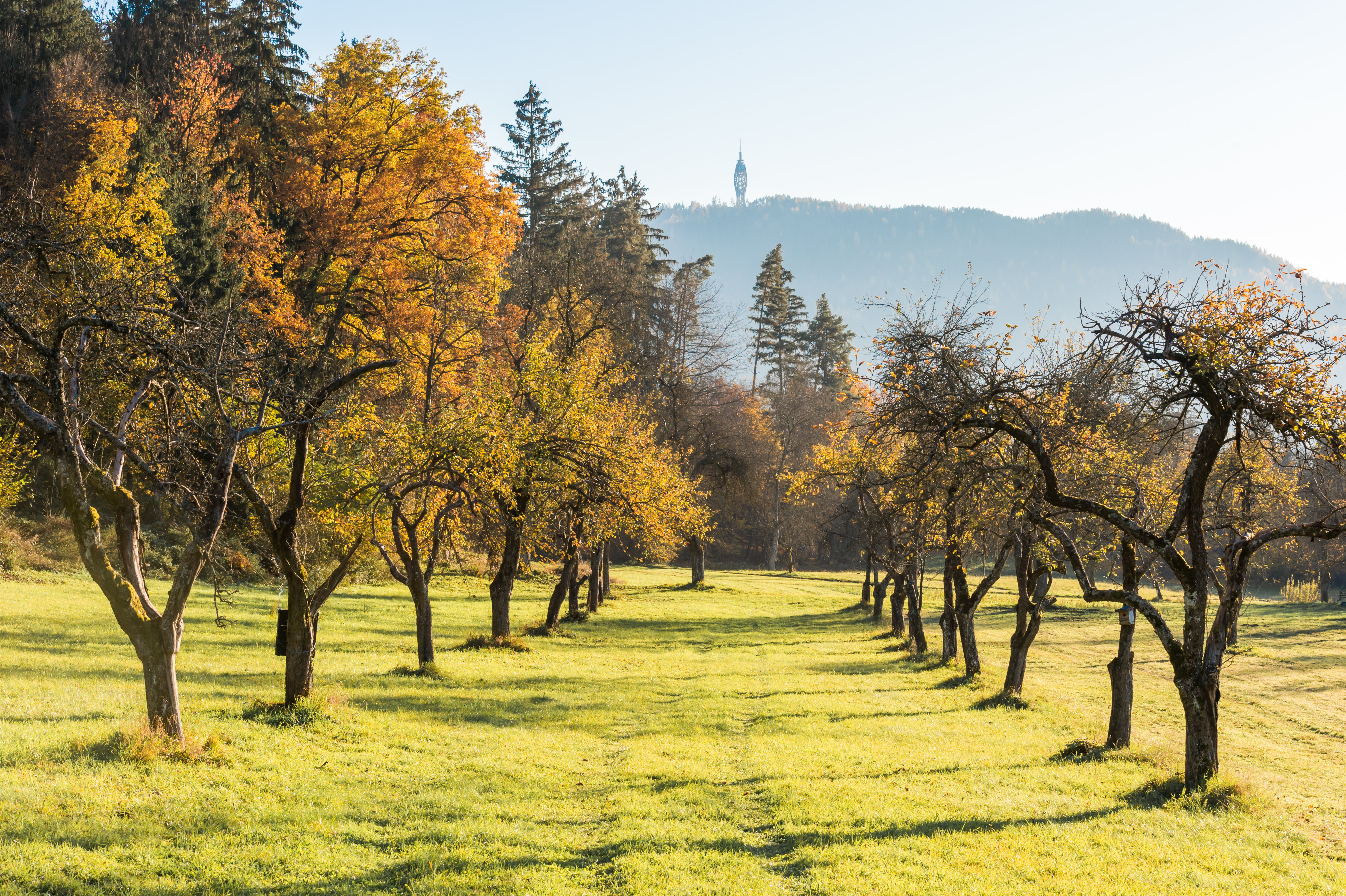 Autumnal meadow orchard, «Am Kåte» at Winklern, municipality Poertschach on the Lake Woerth, district Klagenfurt Land, Carinthia, Austria, EU